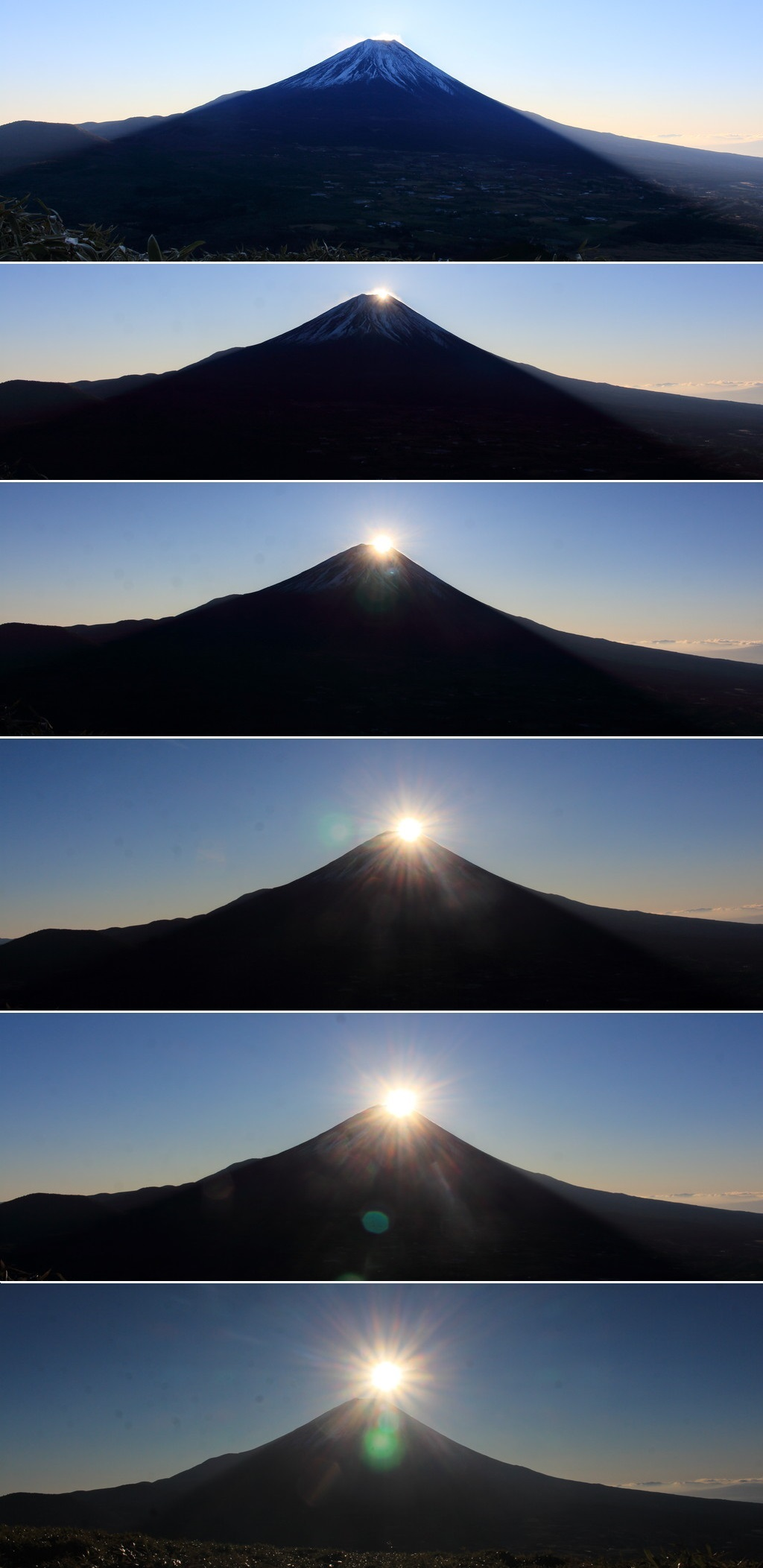 Mount Fuji (Diamond Fuji) seen from Mount Ryu (Yamanashi prefecture) in Japan.